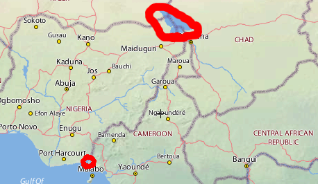 Cameroon-Nigeria Border Disputes